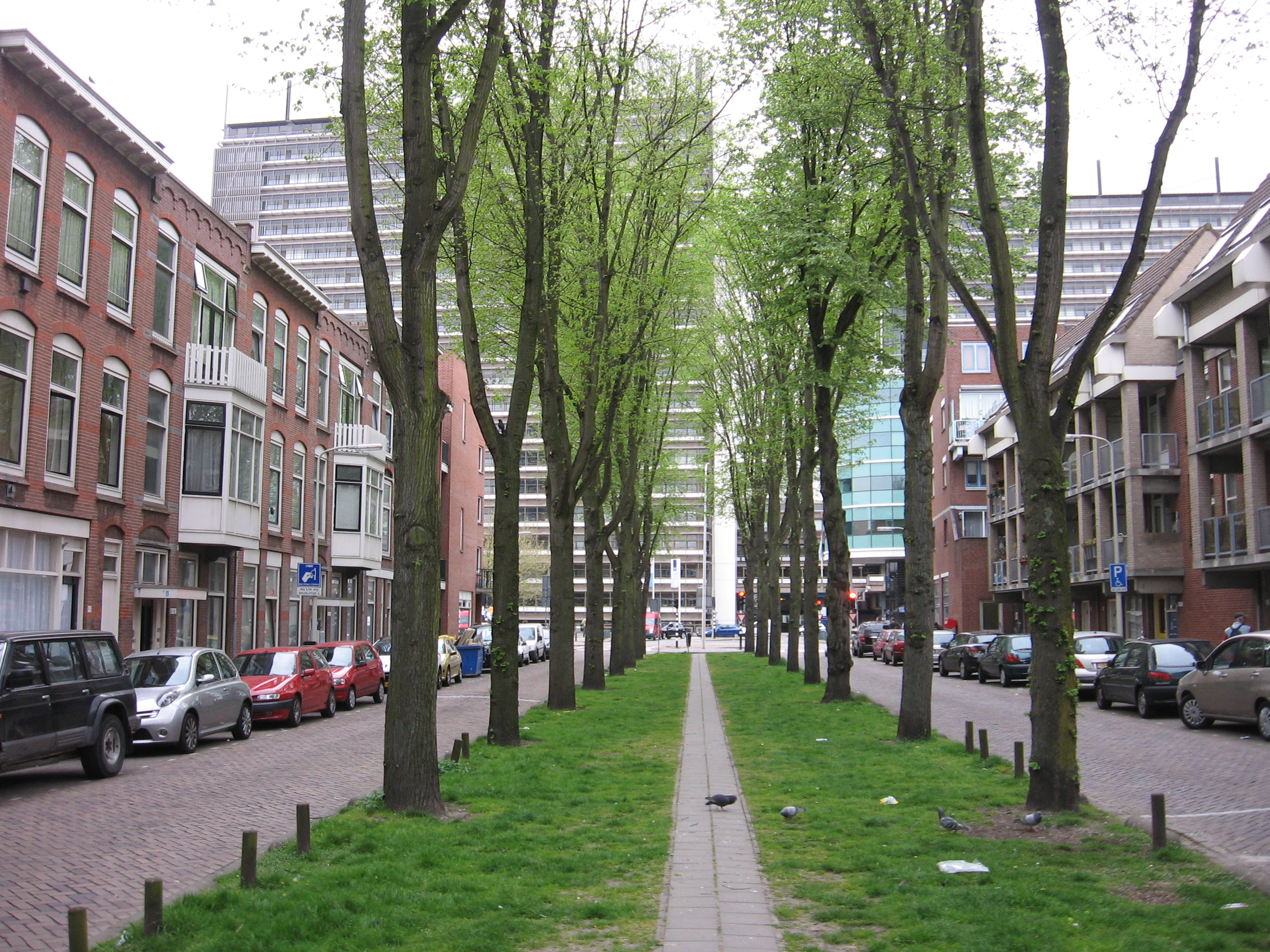 Nieuwe Haven